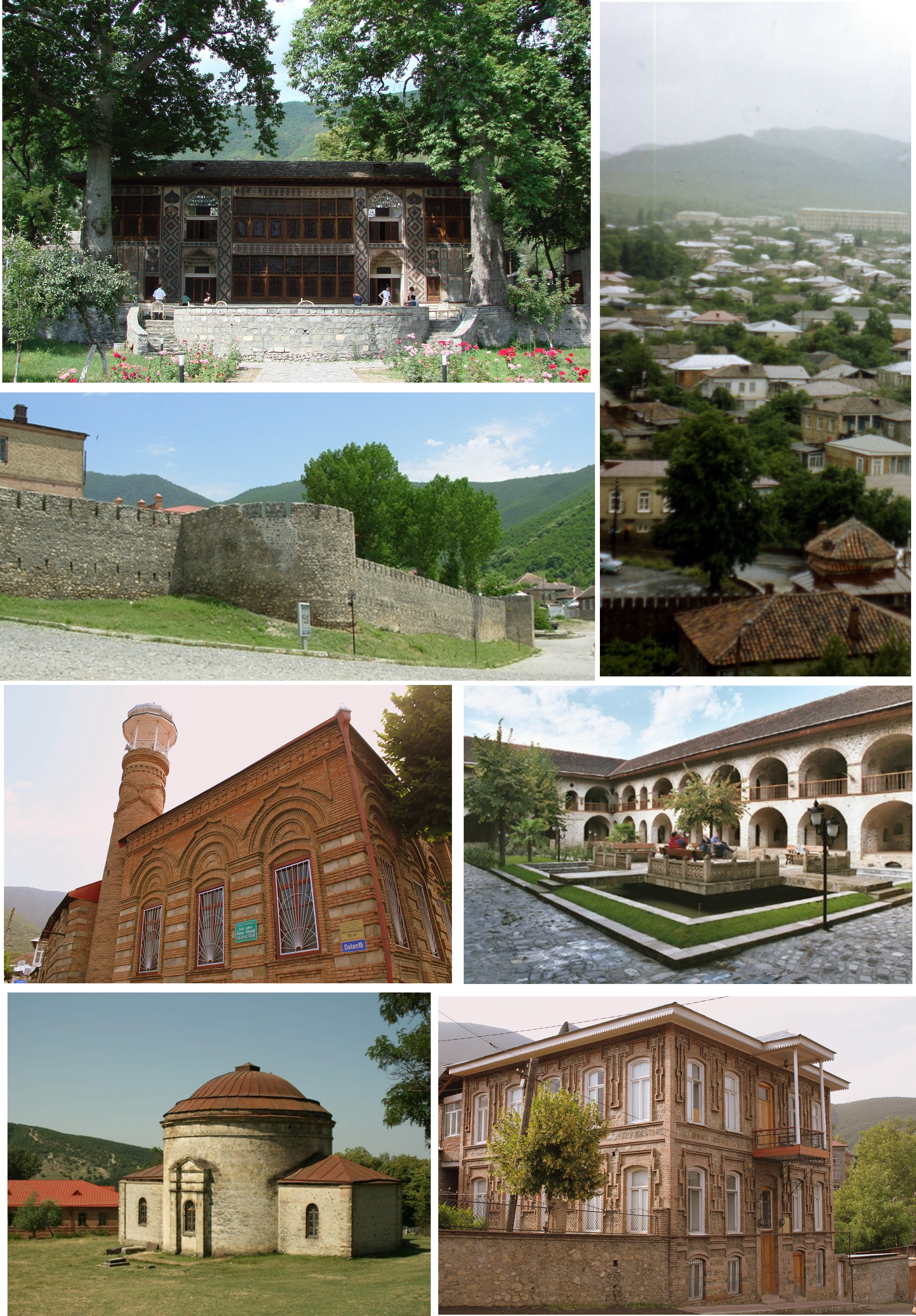 Views of Shaki, Azerbaijan